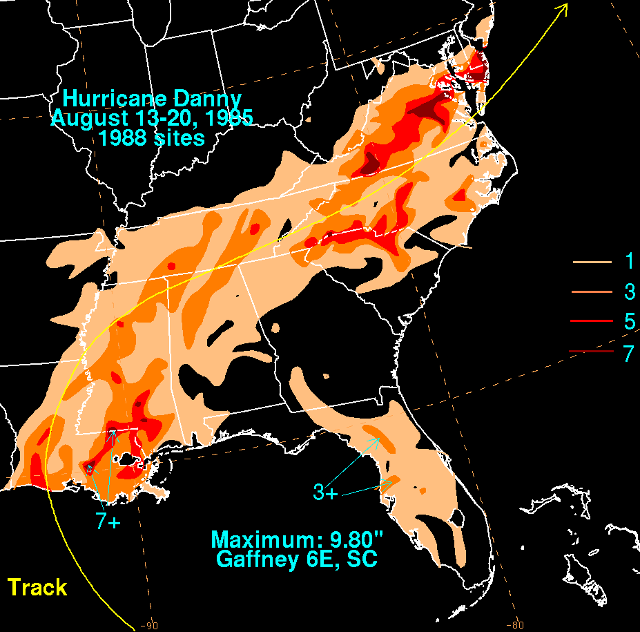 Storm total rainfall map of Hurricane Danny during August 1985.